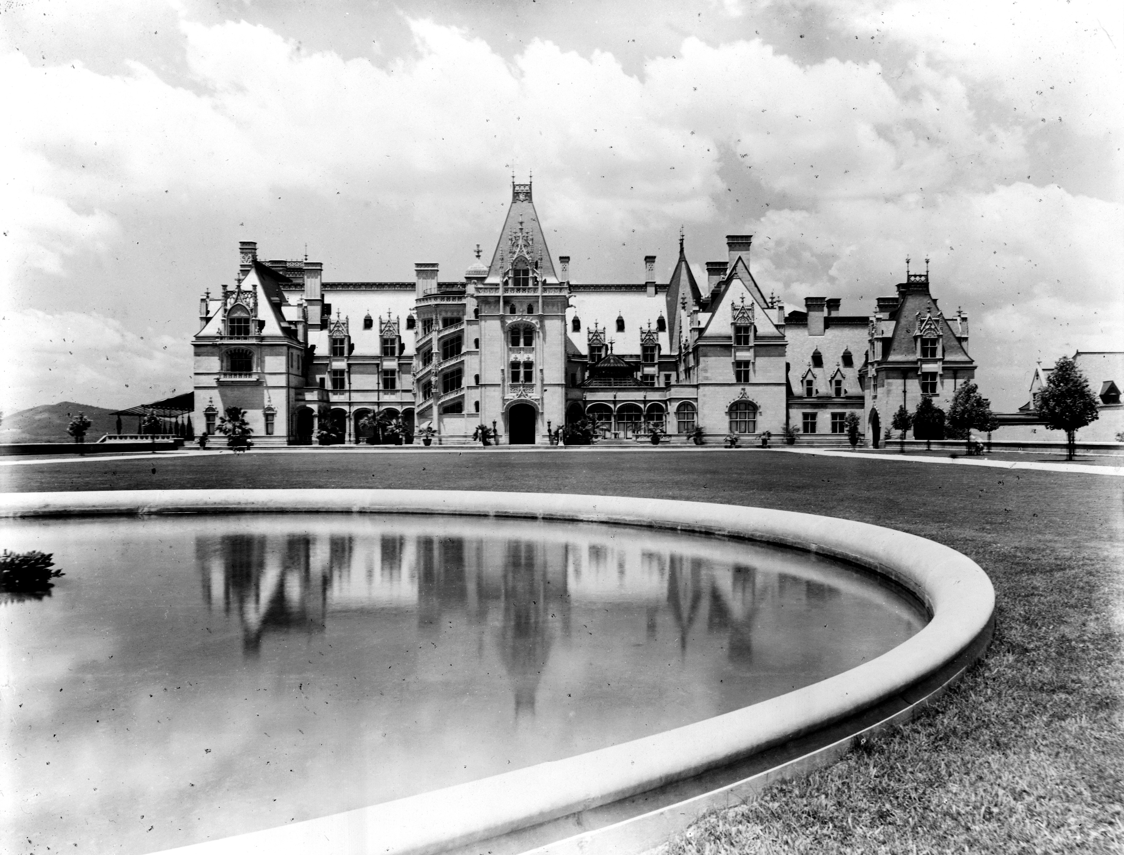 Biltmore House, with reflecting pool in the Biltmore gardens Esplanade (1900). At the Biltmore Estate, Asheville, North Carolina.